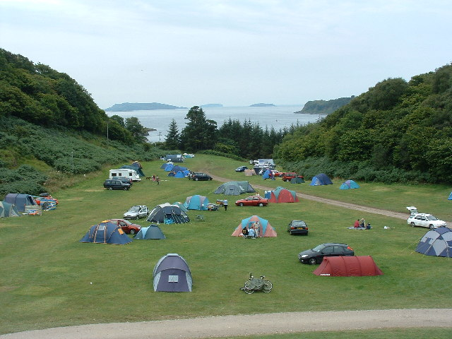 Gallanach Campsite. Looking south over the campsite with the Sound of Kerrera in the background.